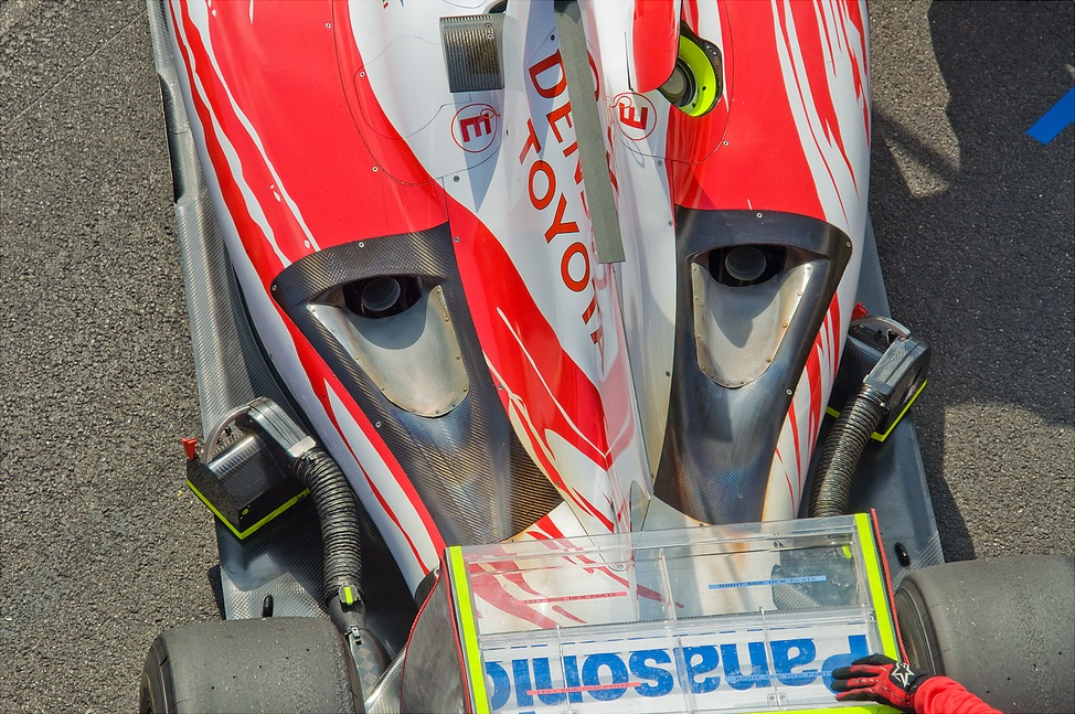 Engine Cover detail of the TF109 1/320s - F/13 - 135mm - ISO200